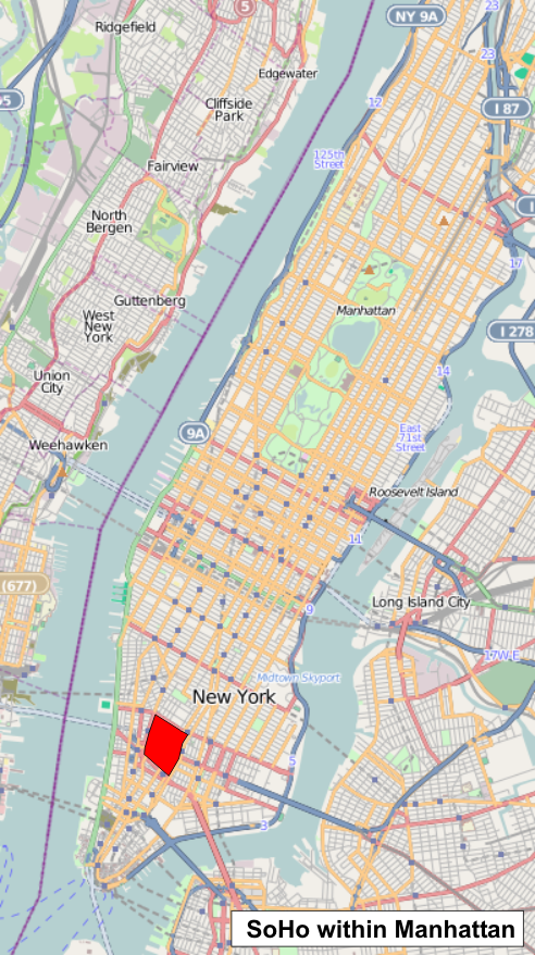 SoHo within the map of Manhattan Geographic limits of the map: * N: 40.8383° * S: 40.6909 * W: -74.0343° * E: -73.9252°